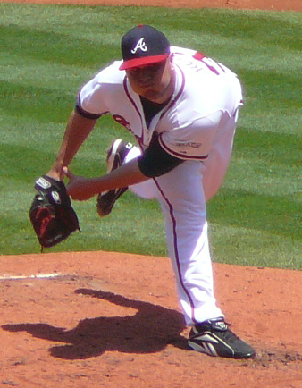 Please attribute this photo by name if used in places other than Wikipedia. 06:08, 29 May 2008 . . Chrisjnelson . . 338×434 (187 KB)